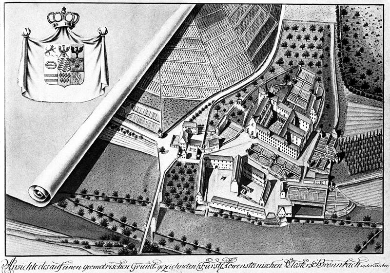 Bronnbach monastery at the beginning of the 19th century. Watercolor.